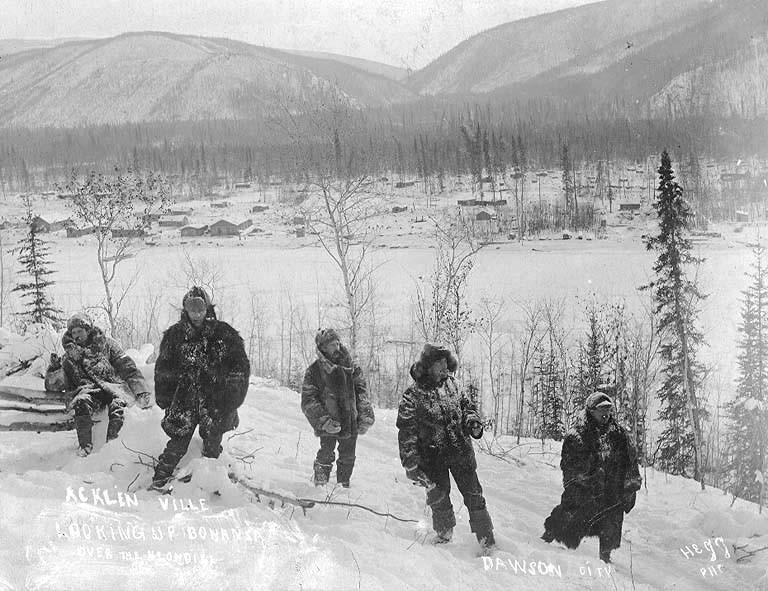 Shows five men dressed in furs . Caption on image: "Acklen ville Looking up Bonanza over the Klondike" Subjects (LCTGM): Rivers--Yukon Subjects (LCSH): Klondike River (Yukon)